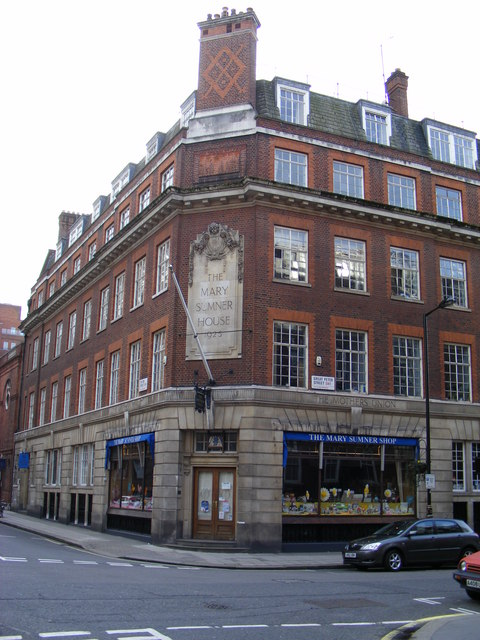 Mary Sumner House Mothers Union HQ Tufton Street Picture is taken from Great Peter Street